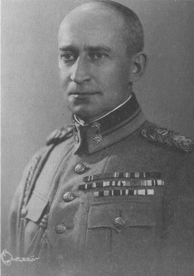 Photograph of the Finnish soldier Elja Rihtniemi (1891–1935).